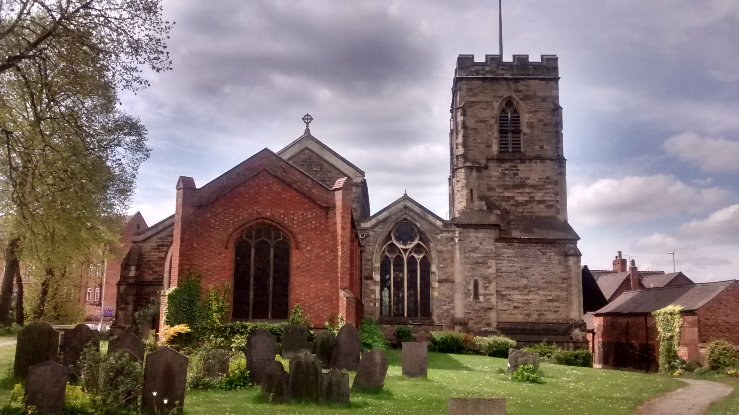 All Saints Church in Leicester from the south side